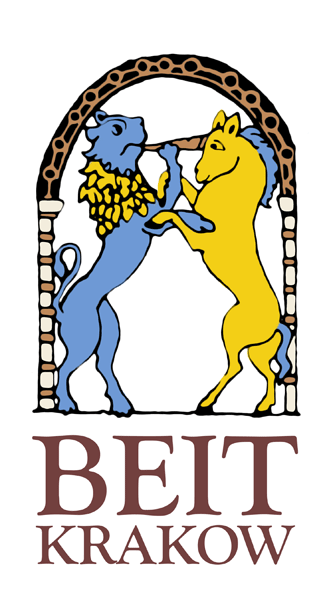 Logo Beit Kraków